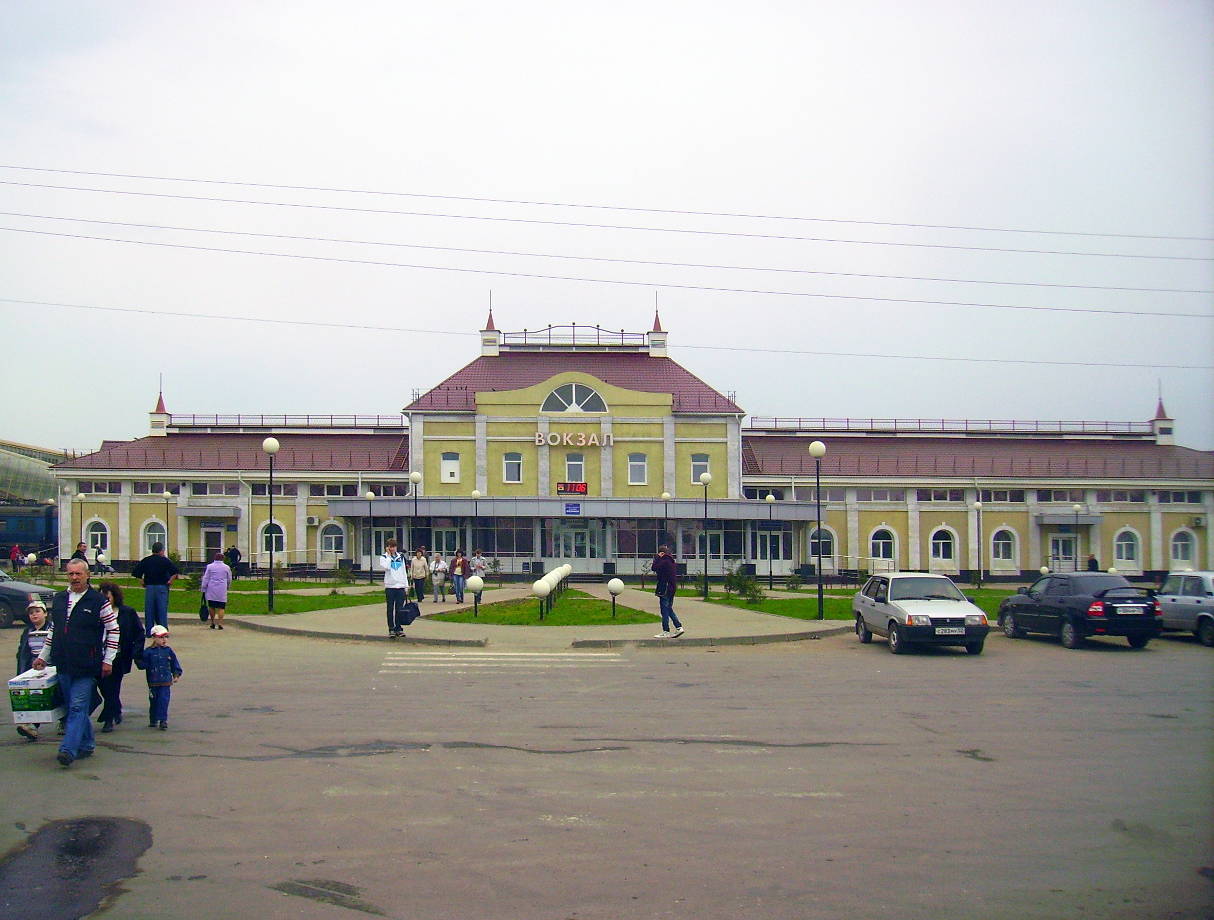 Near Railroad Station of Vyazniki